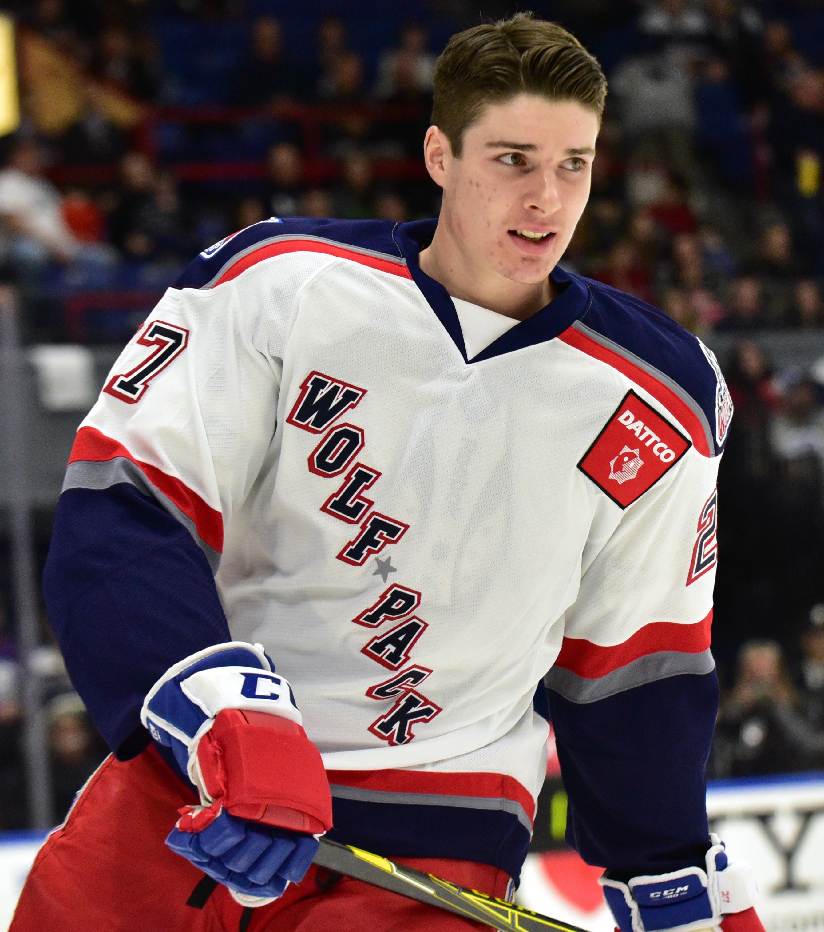 Ryan Graves, Canadian ice hockey defenseman